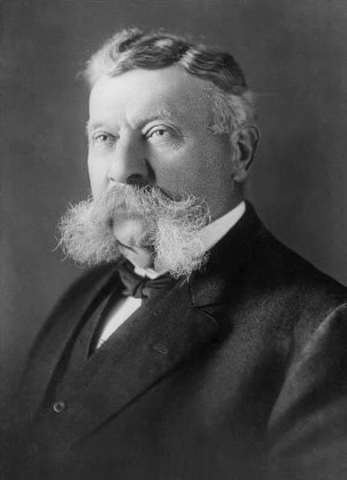 Portrait of Charles I. D. Looff